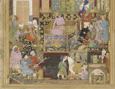 Babur Receives a Courtier 1589 Farrukh Baig Mughal dynasty Opaque watercolor and gold on paper Painted and mounted within borders of a Rawdat al-safa page